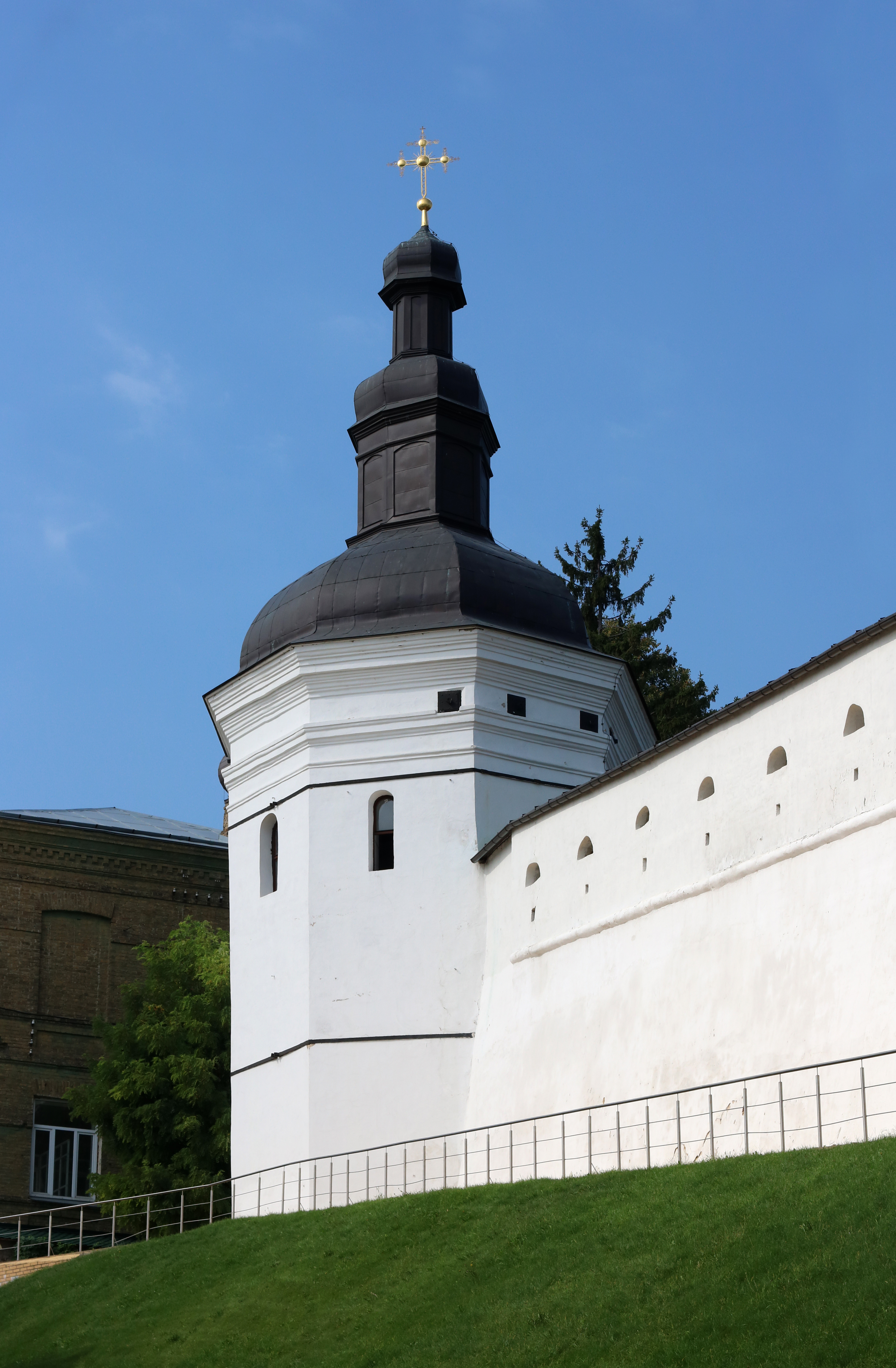 The South Tower, or the Horologium, also called the Clock Tower, because it had an installed clock up to 1818. This tower is a part of the Kyiv Pechersk Lavra fortification